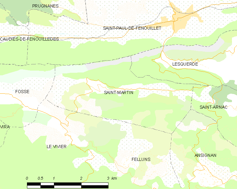 Map of French municipality